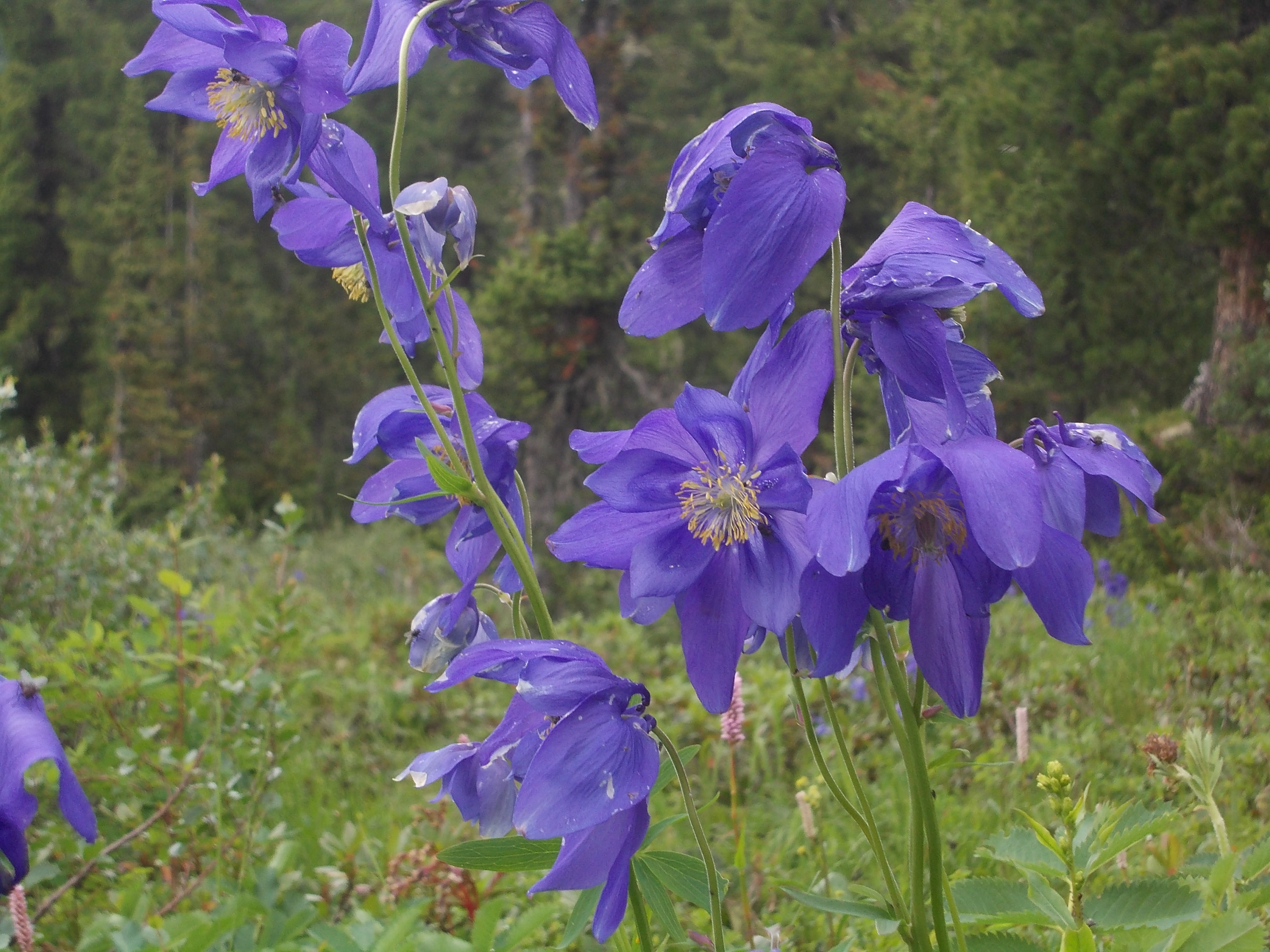 Flowering Aquilegia glandulosa